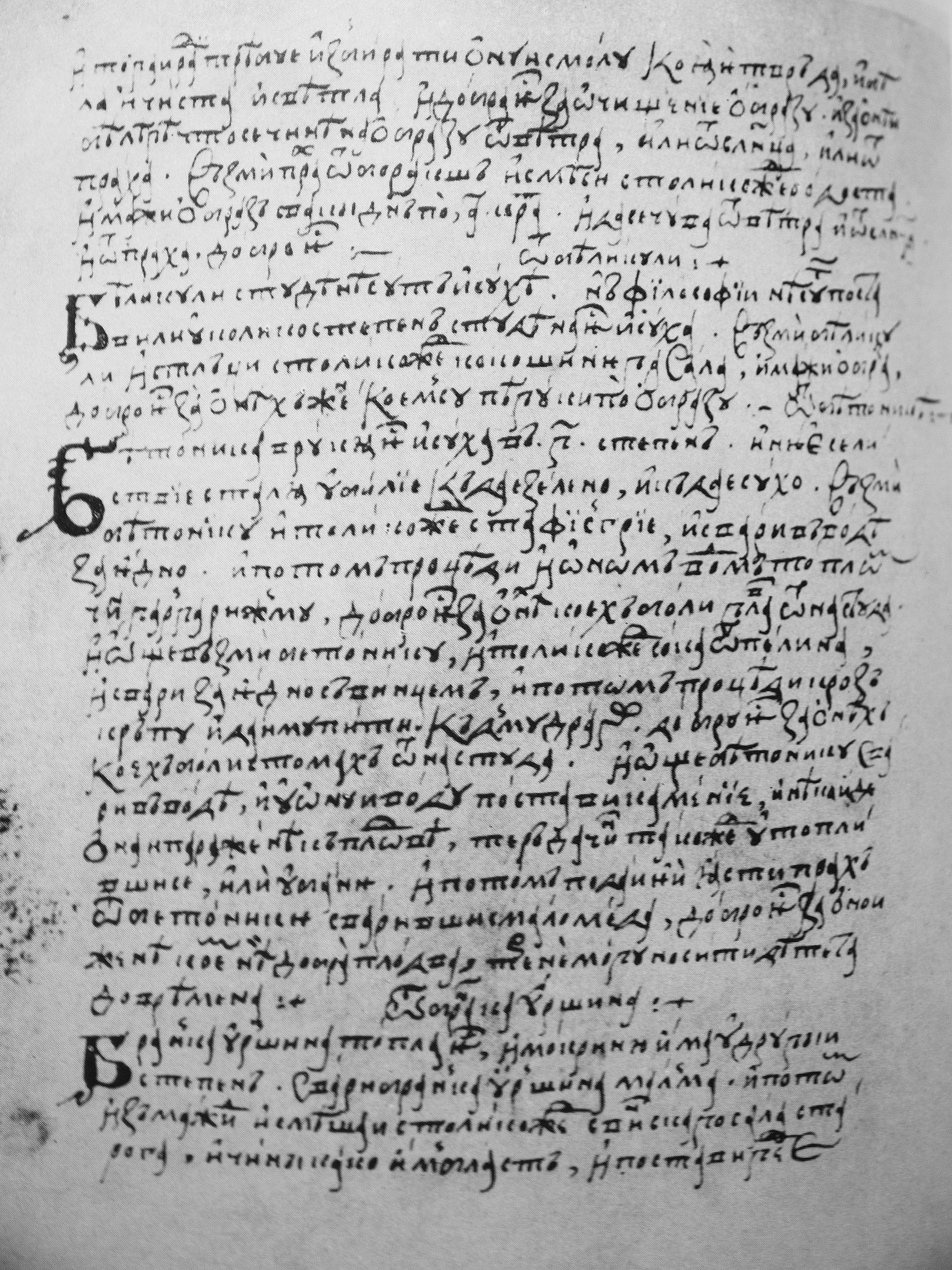 Hilandar Medical Codex 517 Betonica officinalis Library Monastery Hilandar Page depicting Betony - Betonica officinalis